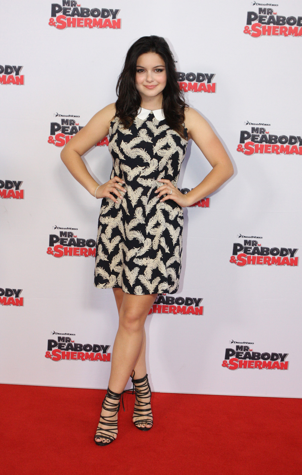 Mr Peabody and Sherman Premiere, Hoys Entertainment Quarter, Moore Park Sydney Australia